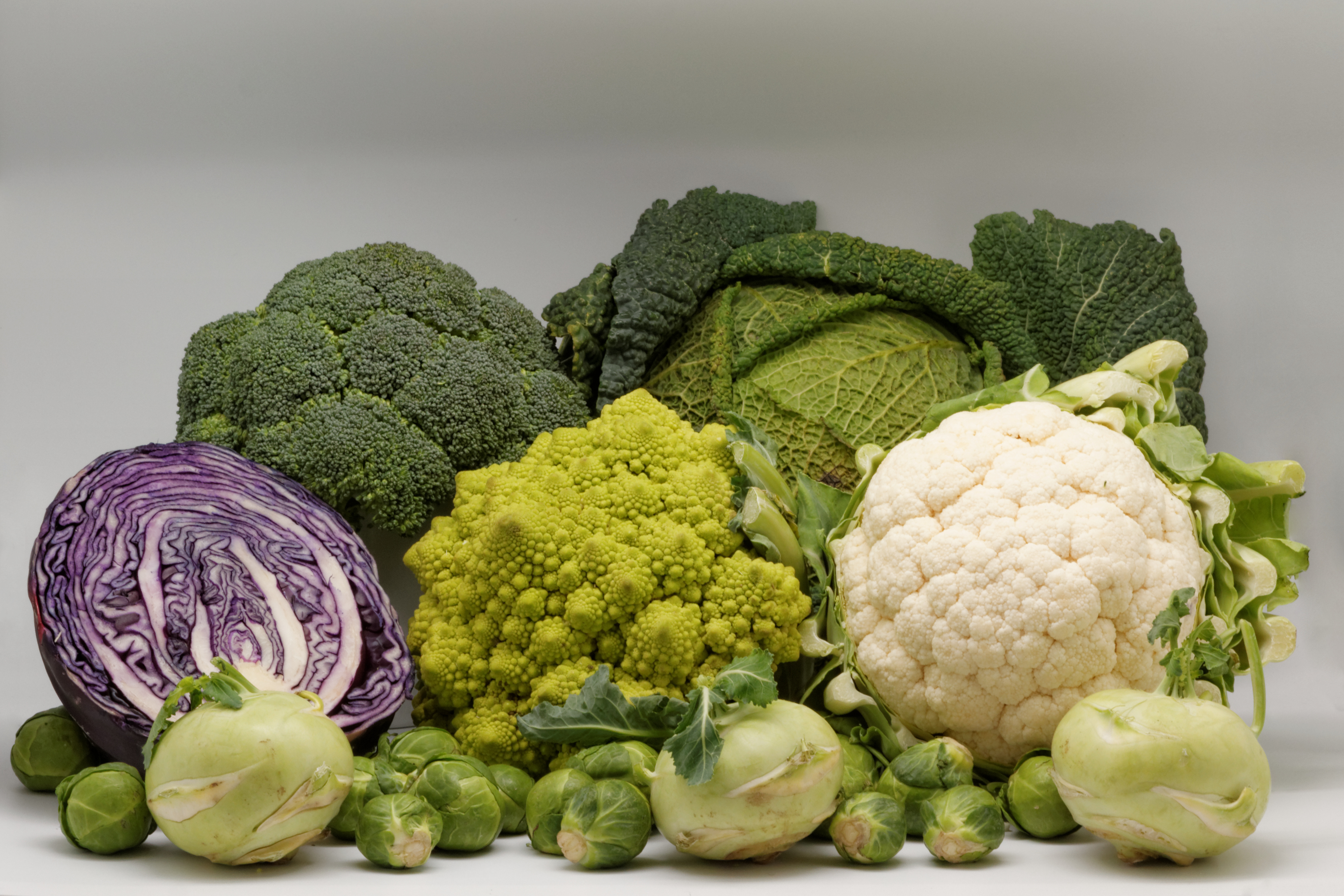 Several cultivars of Brassica oleracea: cauliflower, brussels sprout, green cabbage, red cabbage, broccoli, romanesco broccoli, kohlrabi.